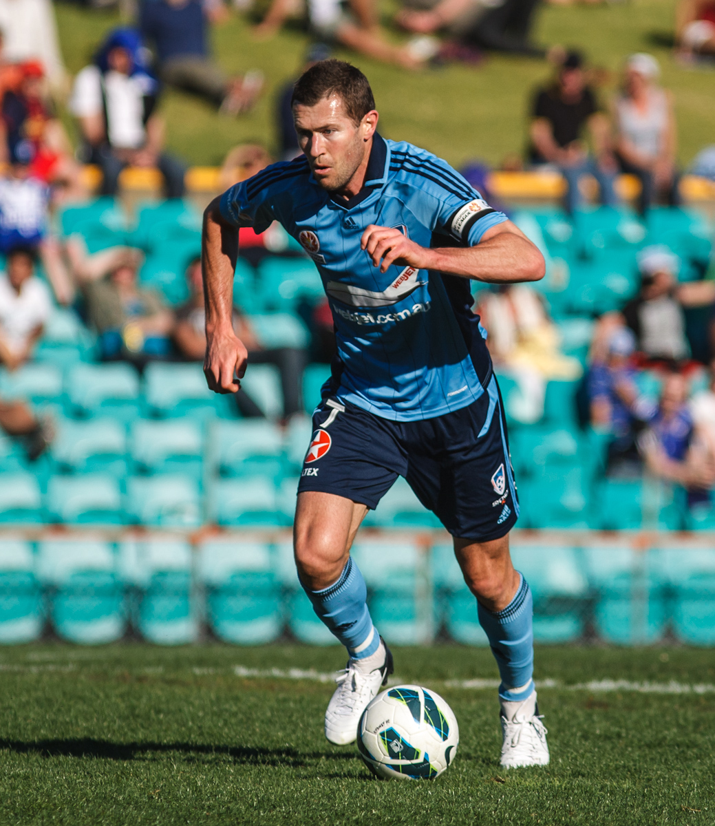 Brett Emerton playing in a pre-season match between Sydney FC and Newcastle Jets.